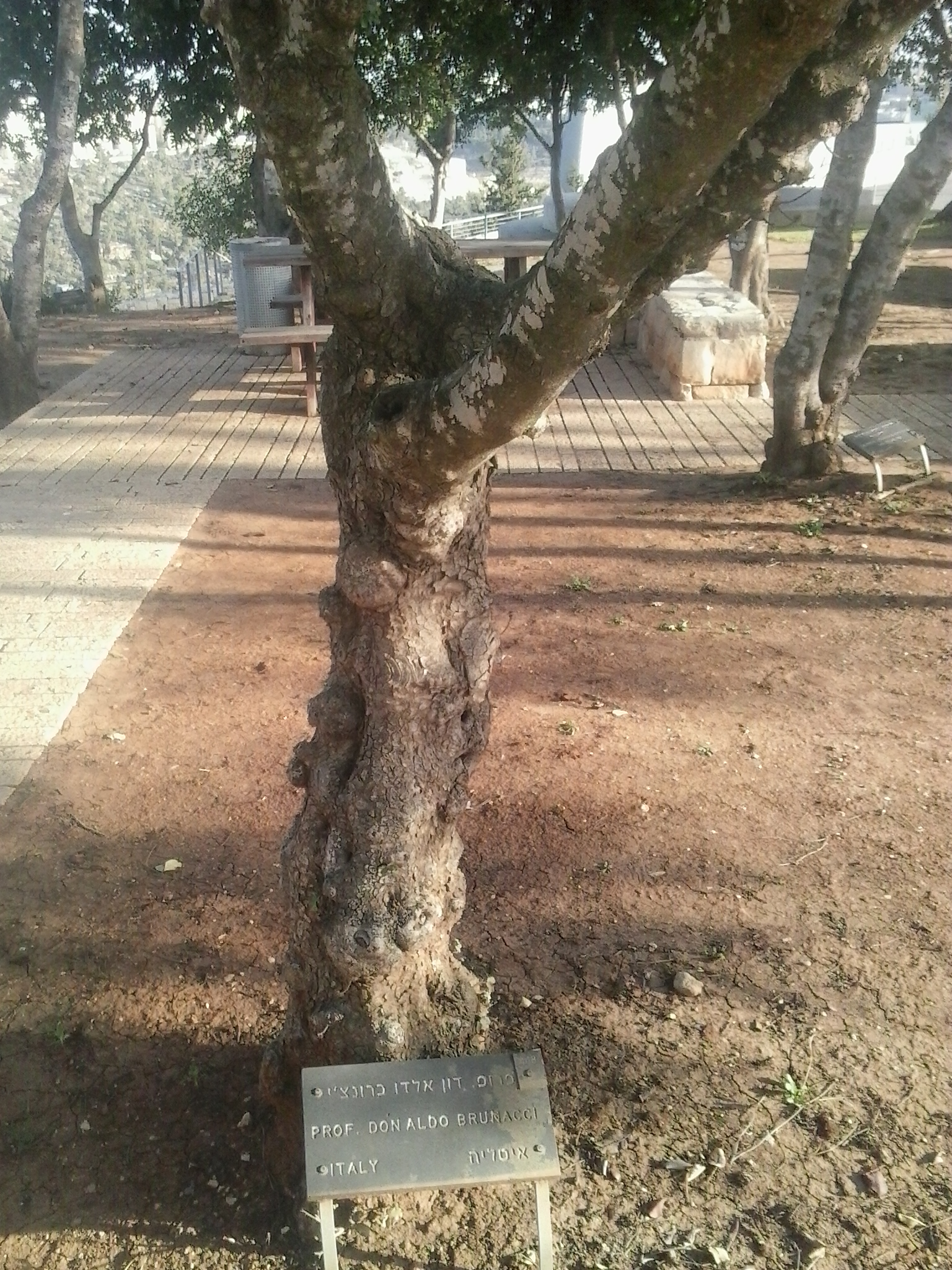 The Tree planted at Yad Vashem honoring the Righteous Among the Nations Aldo Brunacci